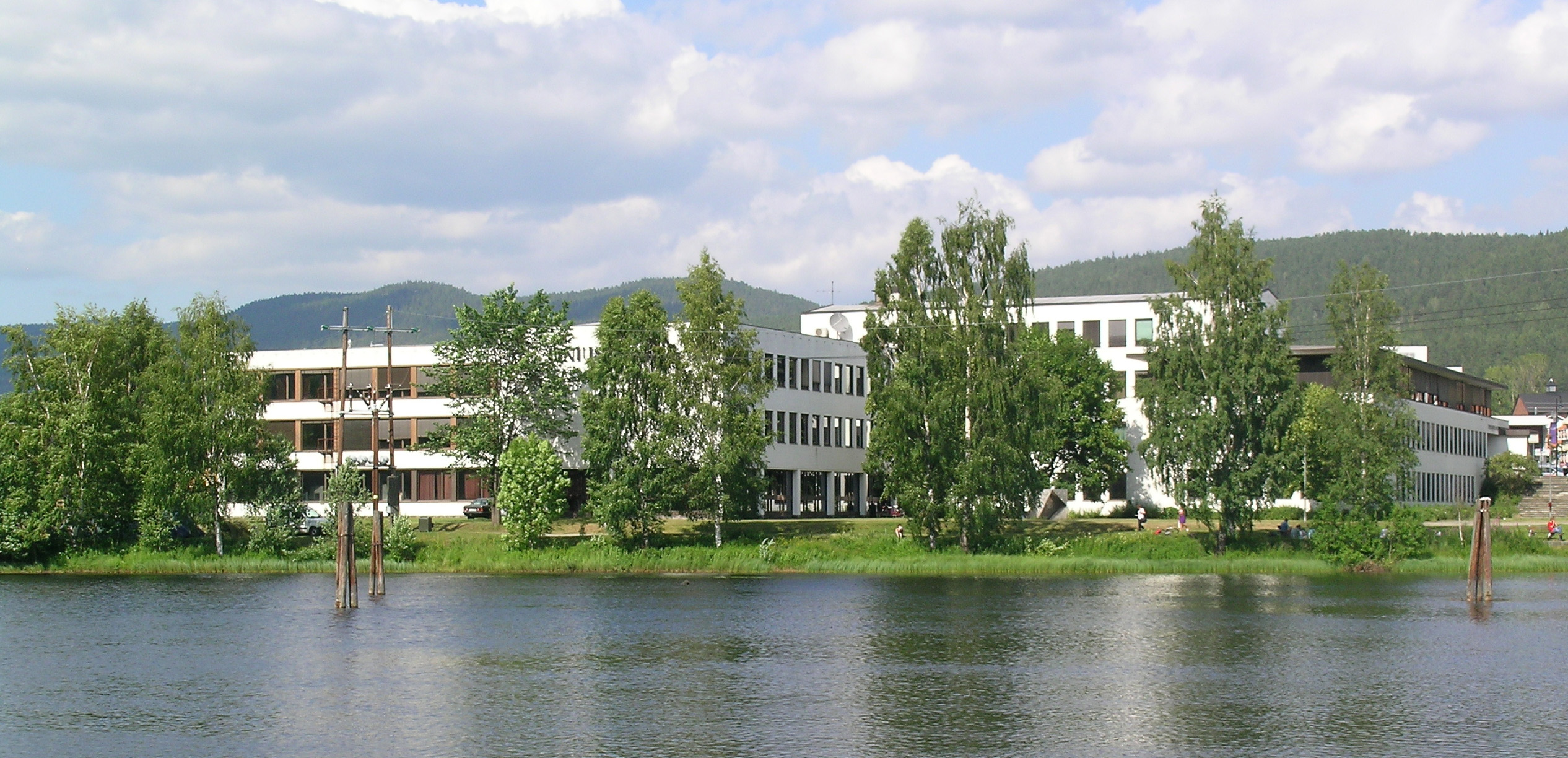 Tinius Olsens skole (upper secondary school). Kongsberg, Buskerud, Norway.